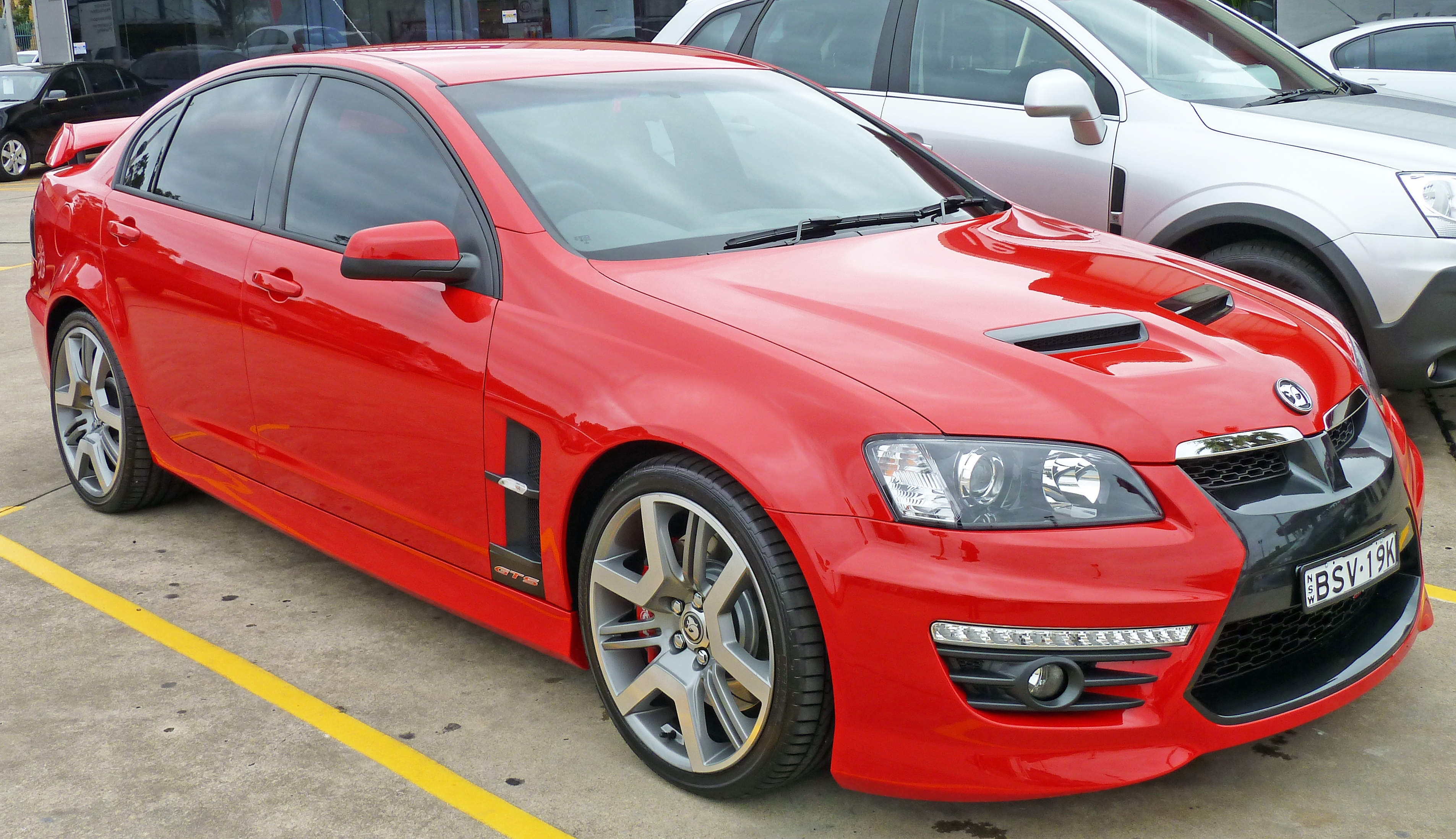 2010 HSV GTS (E Series 2 MY10) sedan. Photographed at Suttons Holden, Chullora, New South Wales, Australia.